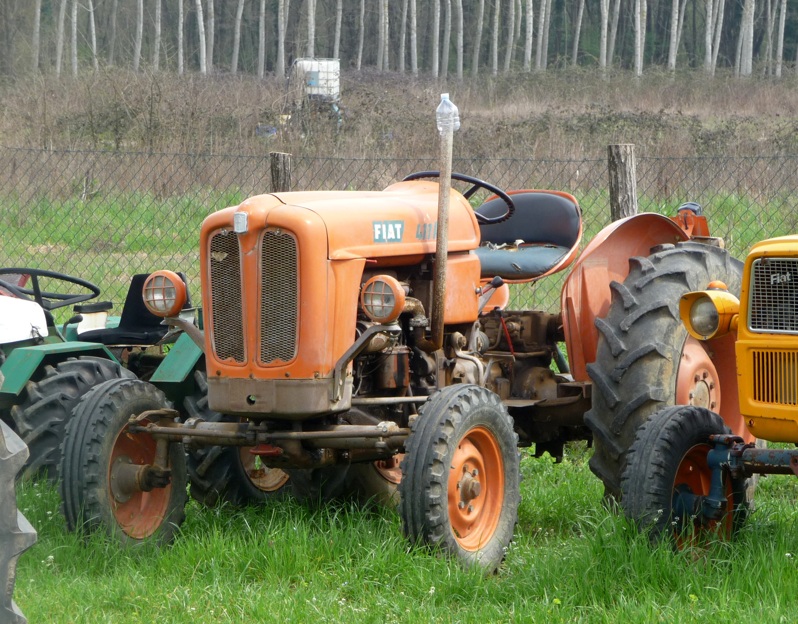 Fiat 411 R tractor